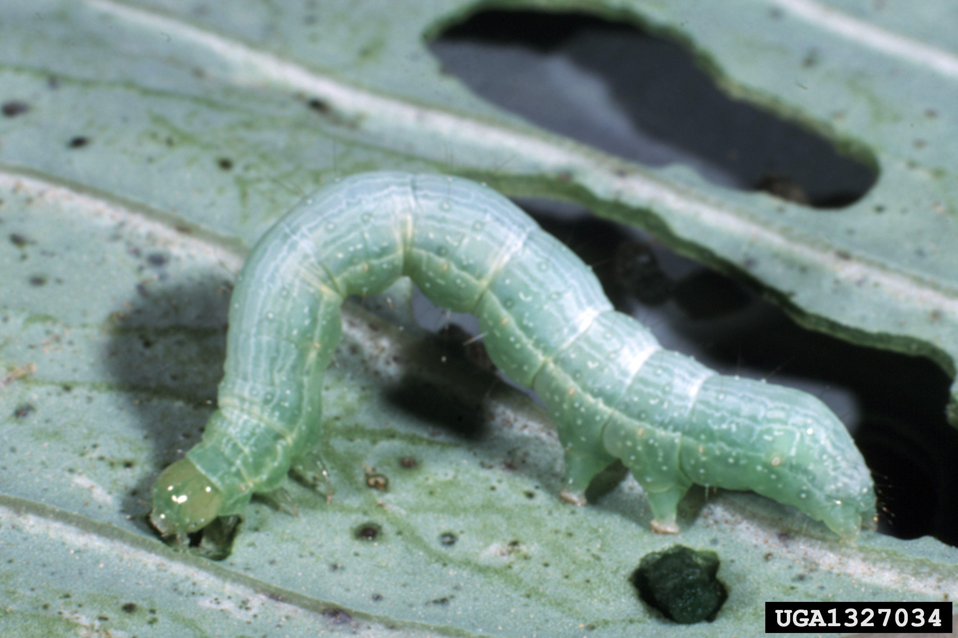 Trichoplusia ni_larva